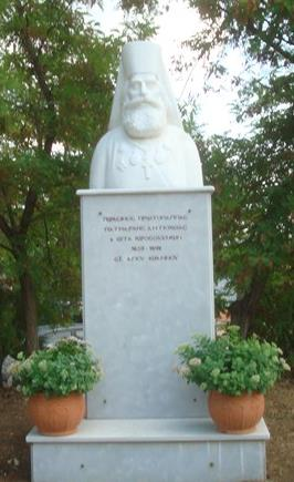 Gerasimus of Jerusalem bust